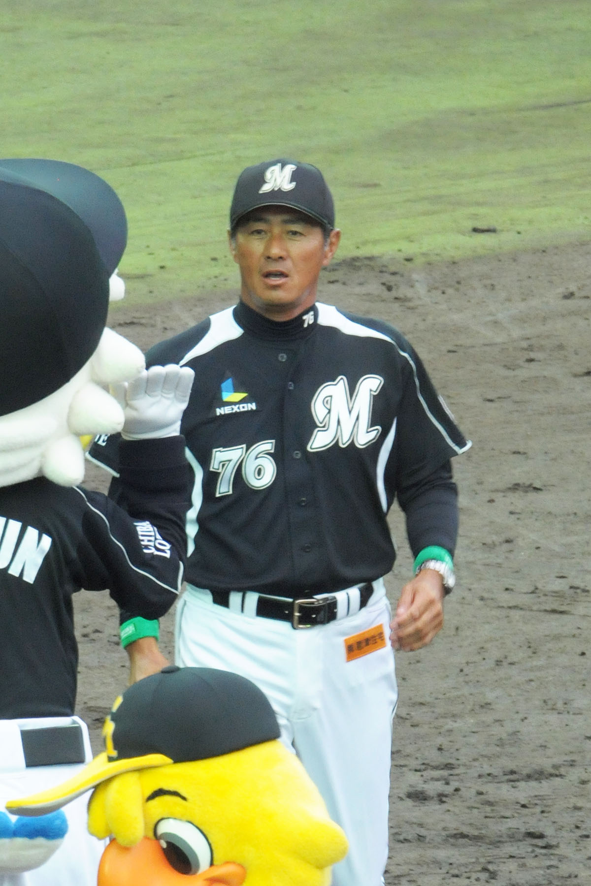 Michio Aoyama, manager of the Chiba Lotte Marines farm team, at Akita Prefectural Baseball Stadium.